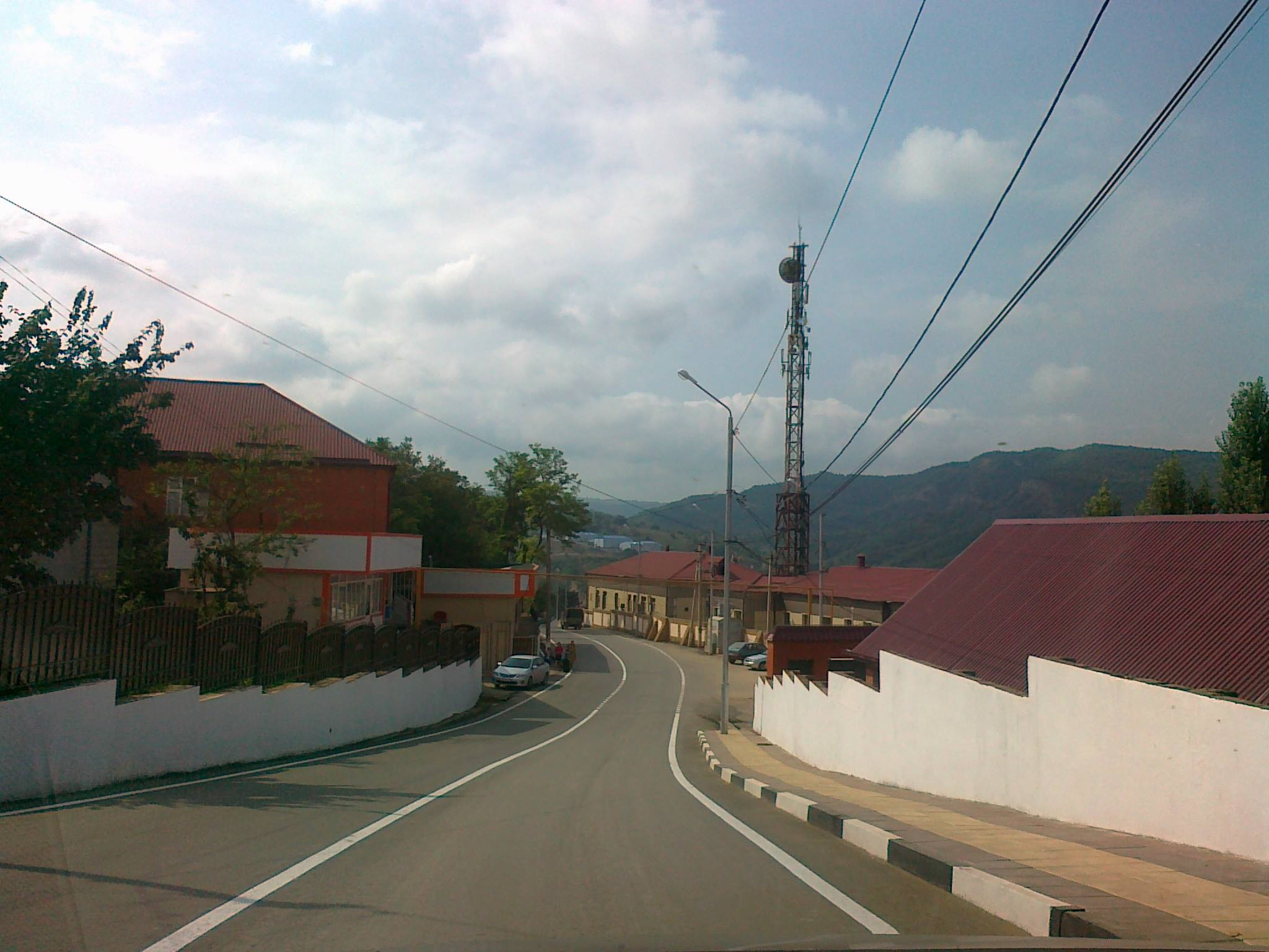 Нохчийн: Нажи-Юрт This file, which was originally posted to was reviewed on 18 August 2016 by reviewer INeverCry, who confirmed that it was available there under the stated license on that date.